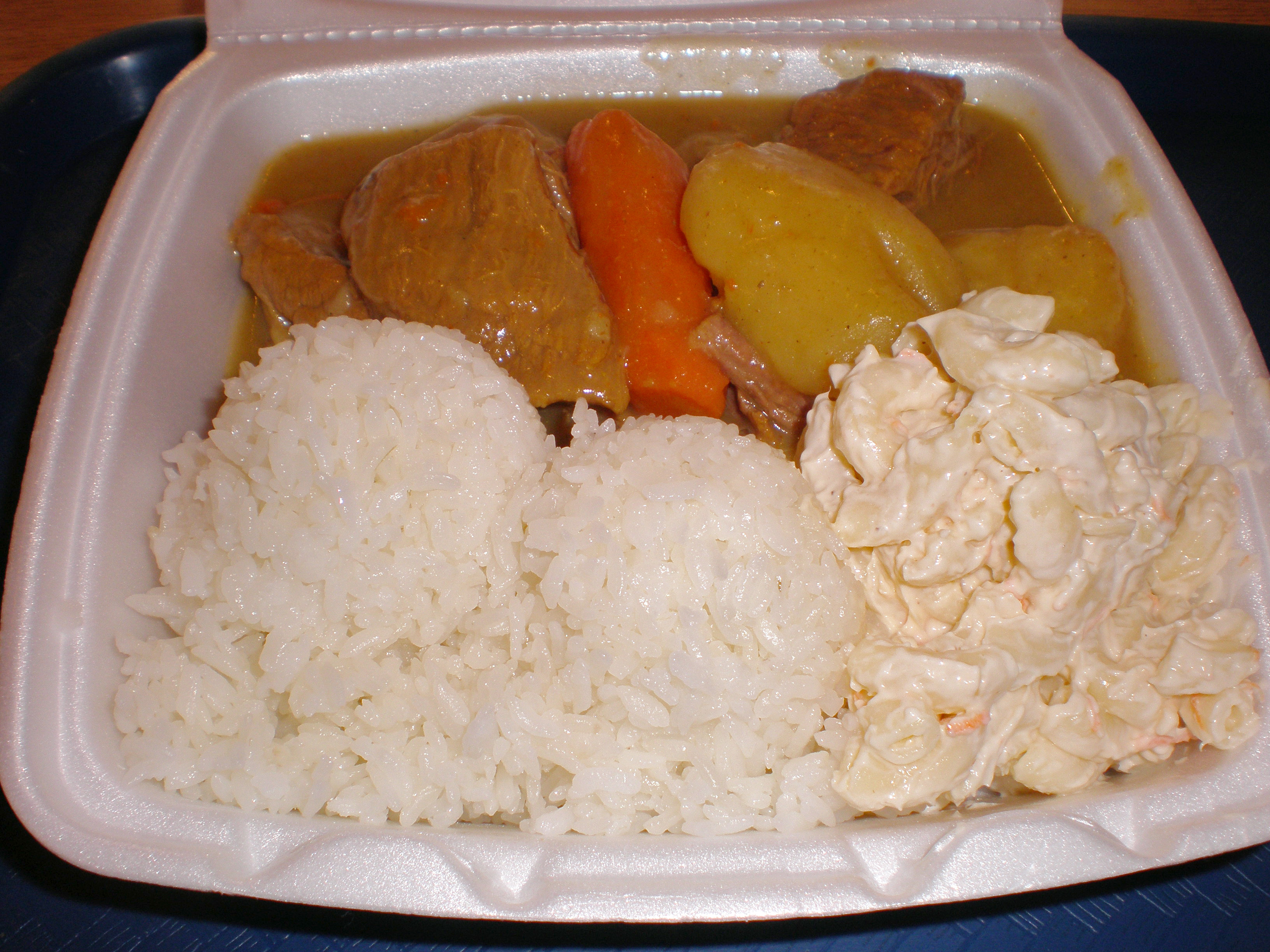 An L&L Hawaiian Barbecue beef curry meal.